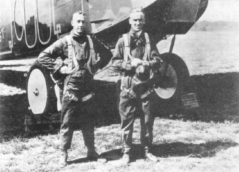 1st Lt . John A. Macready (left) and 1st Lt. Oakley G. Kelly (Right), Pilora in the 1922 non-stop transcontinental flight